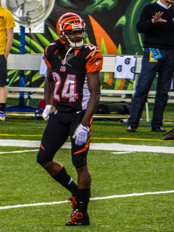 Warming up before Monday Night Football game vs the Pittsburgh Steelers, September 17, 2013